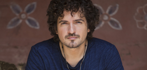 Tommy Torres, picture taken during an interview on Acceso Total